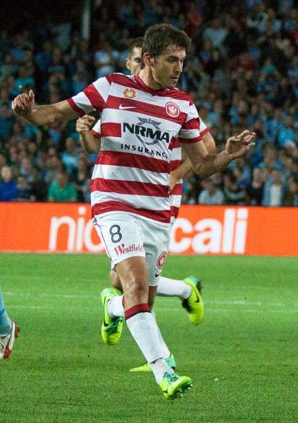 Mateo Poljak in Wanderers Away strip